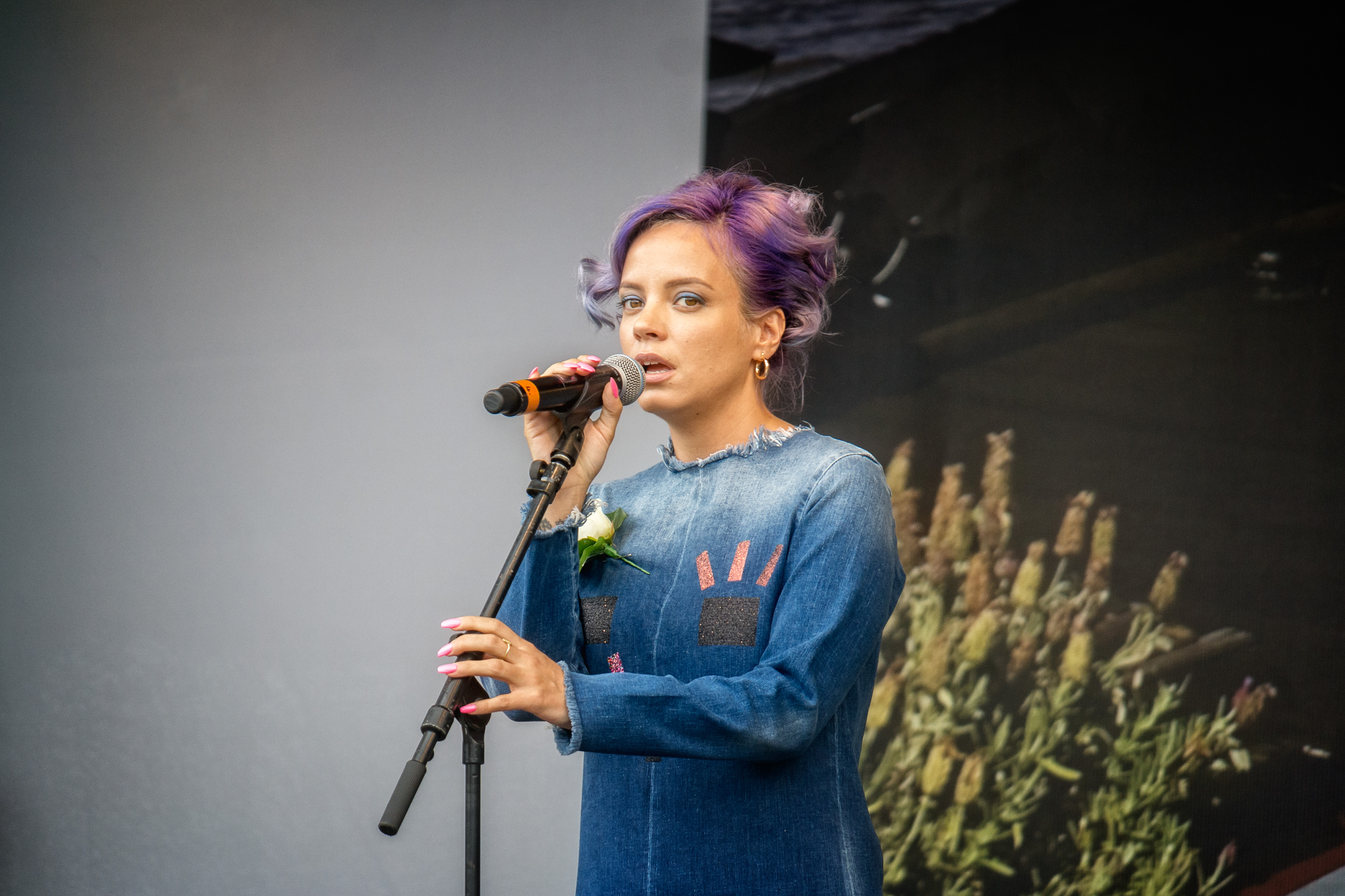 Photos taken at the birthday memorial for Jo Cox, MP, at London's Trafalgar Square.